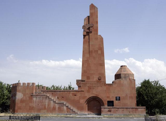 Nor Hachn memorial 4/1